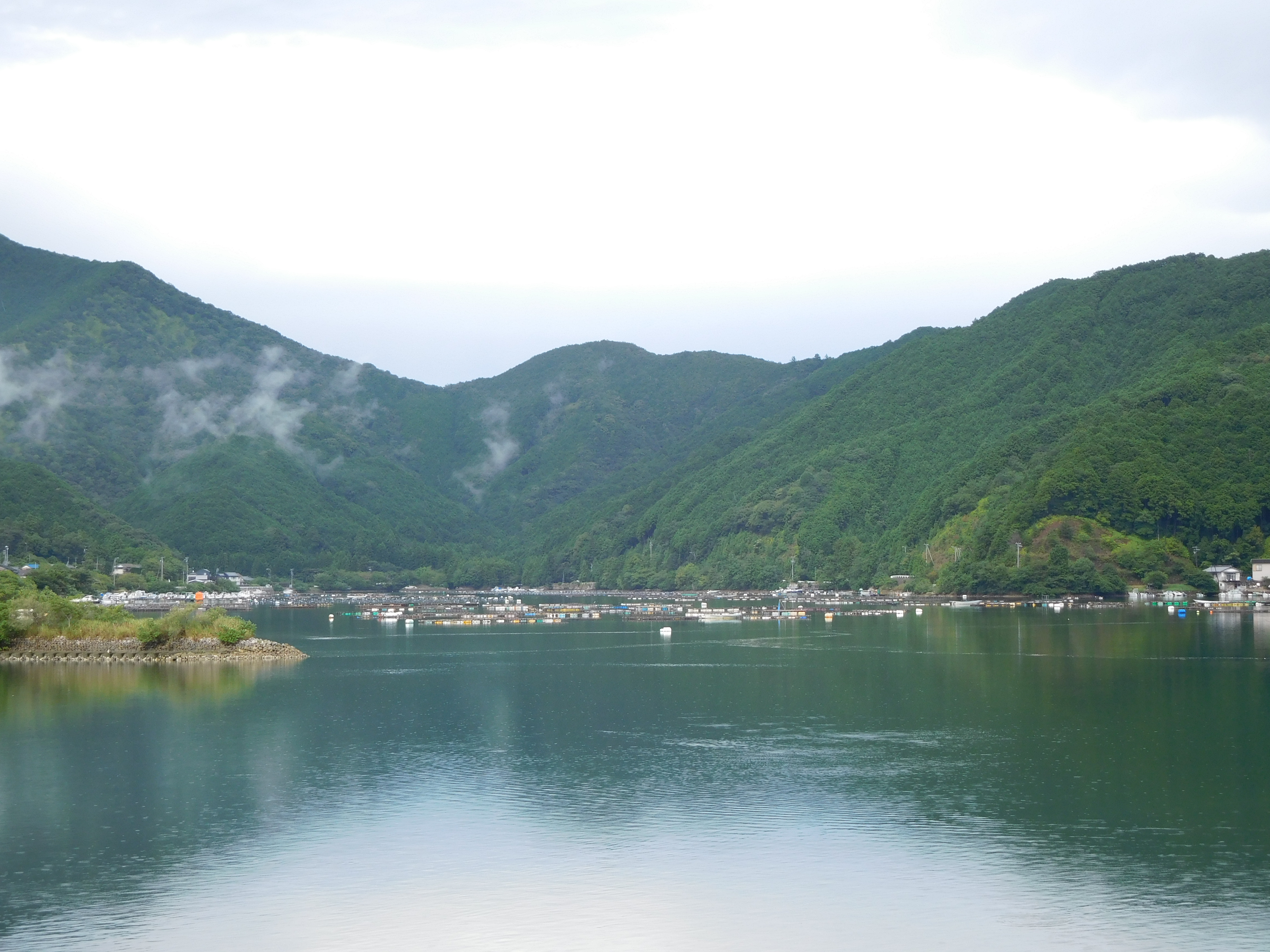 This is Lake Shiraishi in Kihoku, Mie, Japan. It produces Watari oysters.